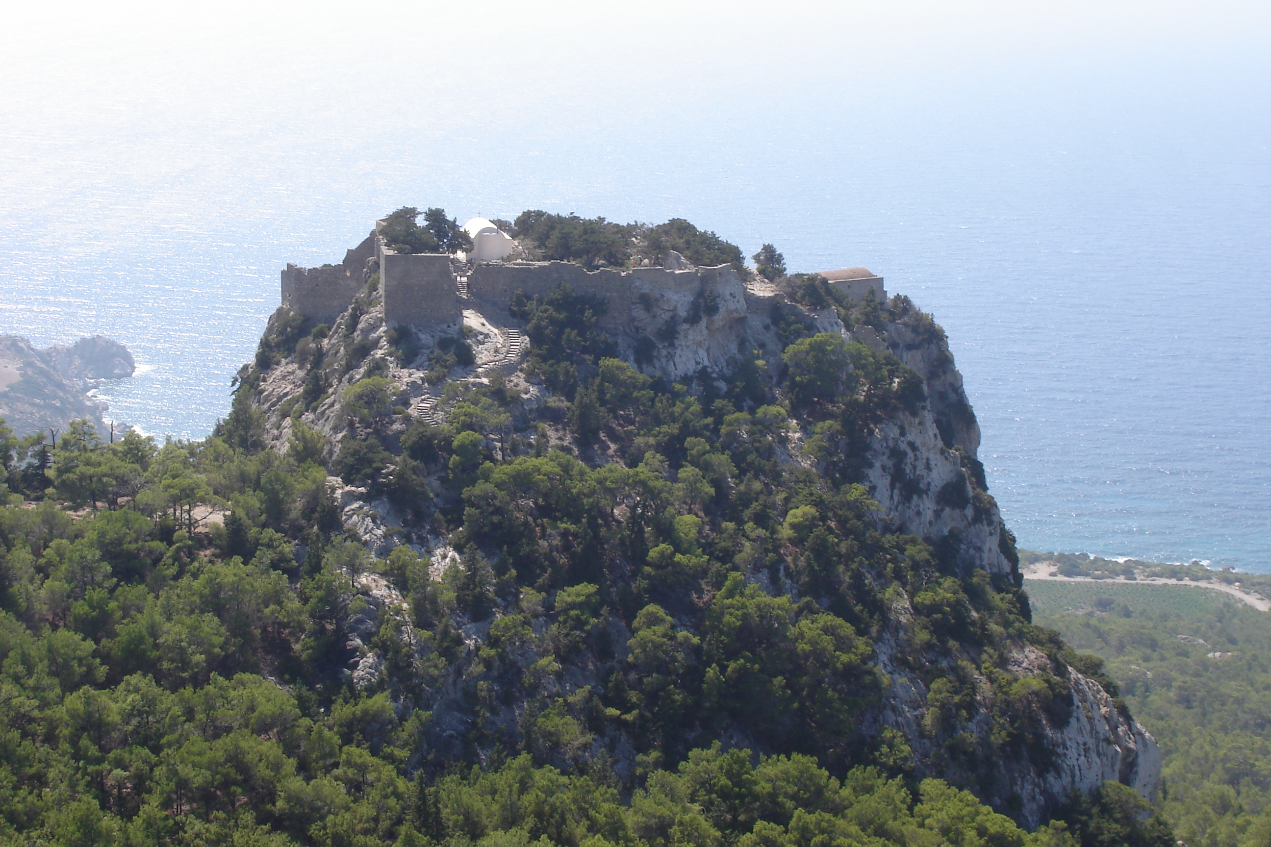 Monolithos (Rhodos).